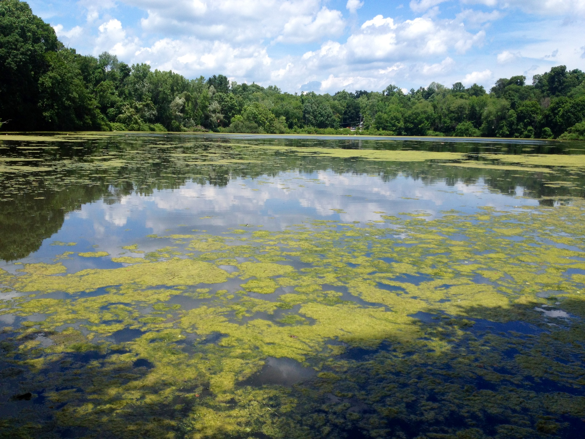 Kyle Turchick took this picture with his iPhone 4s and anyone can use this picture if they want it's all good with me